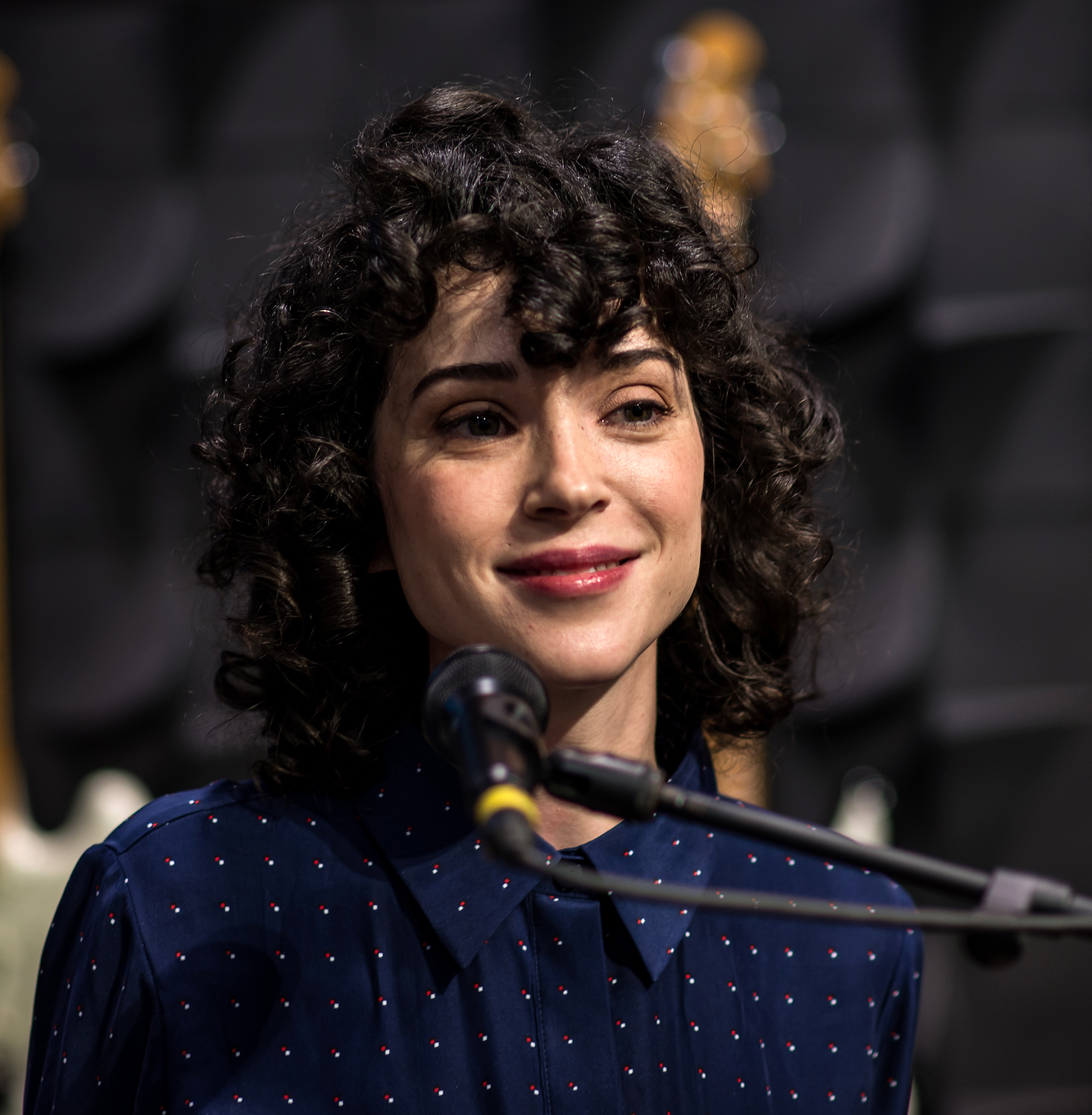 Annie Clark, January 2017